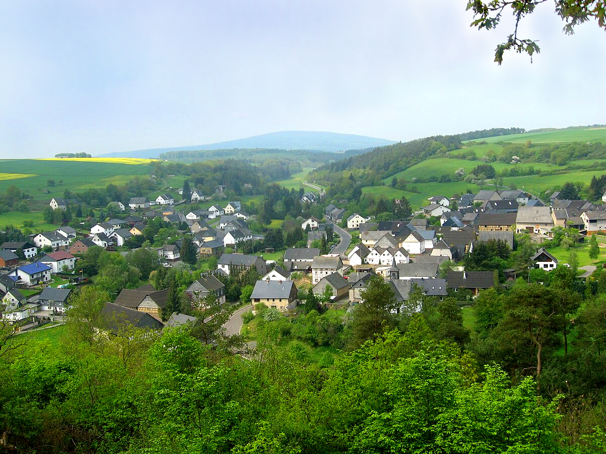 Village Oberkin in the Hunsrück landscape, Germany.